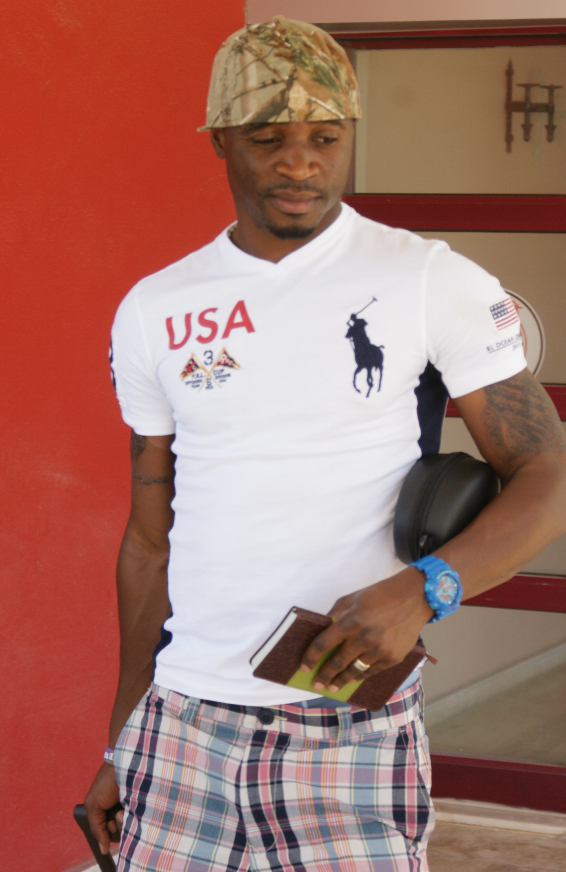 Photo:Murat Özgen